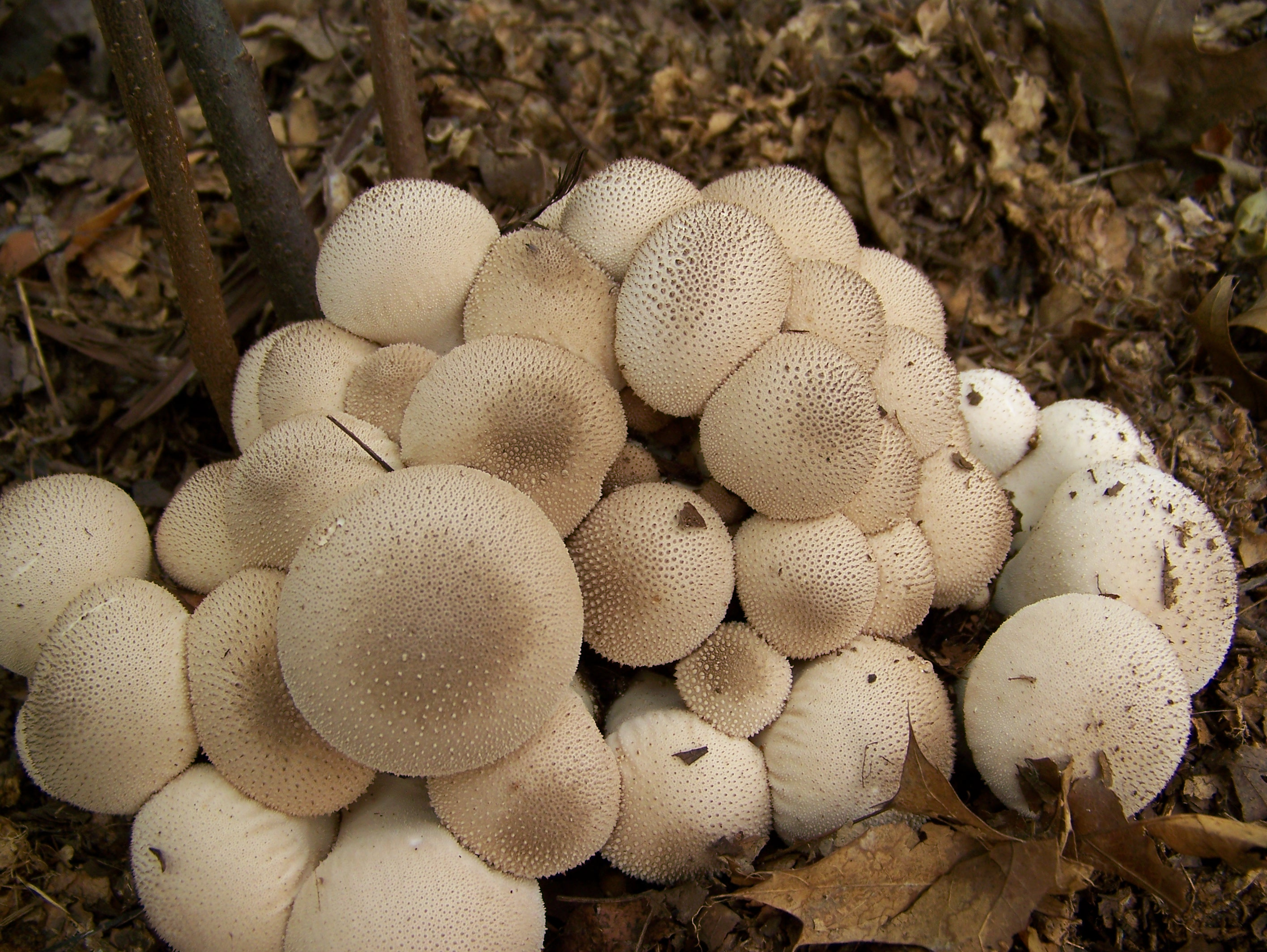 Fruit bodies of the common puffball mushroom Lycoperdon perlatum Pers. Photographed in Westmoreland Co., Pennsylvania, USA.